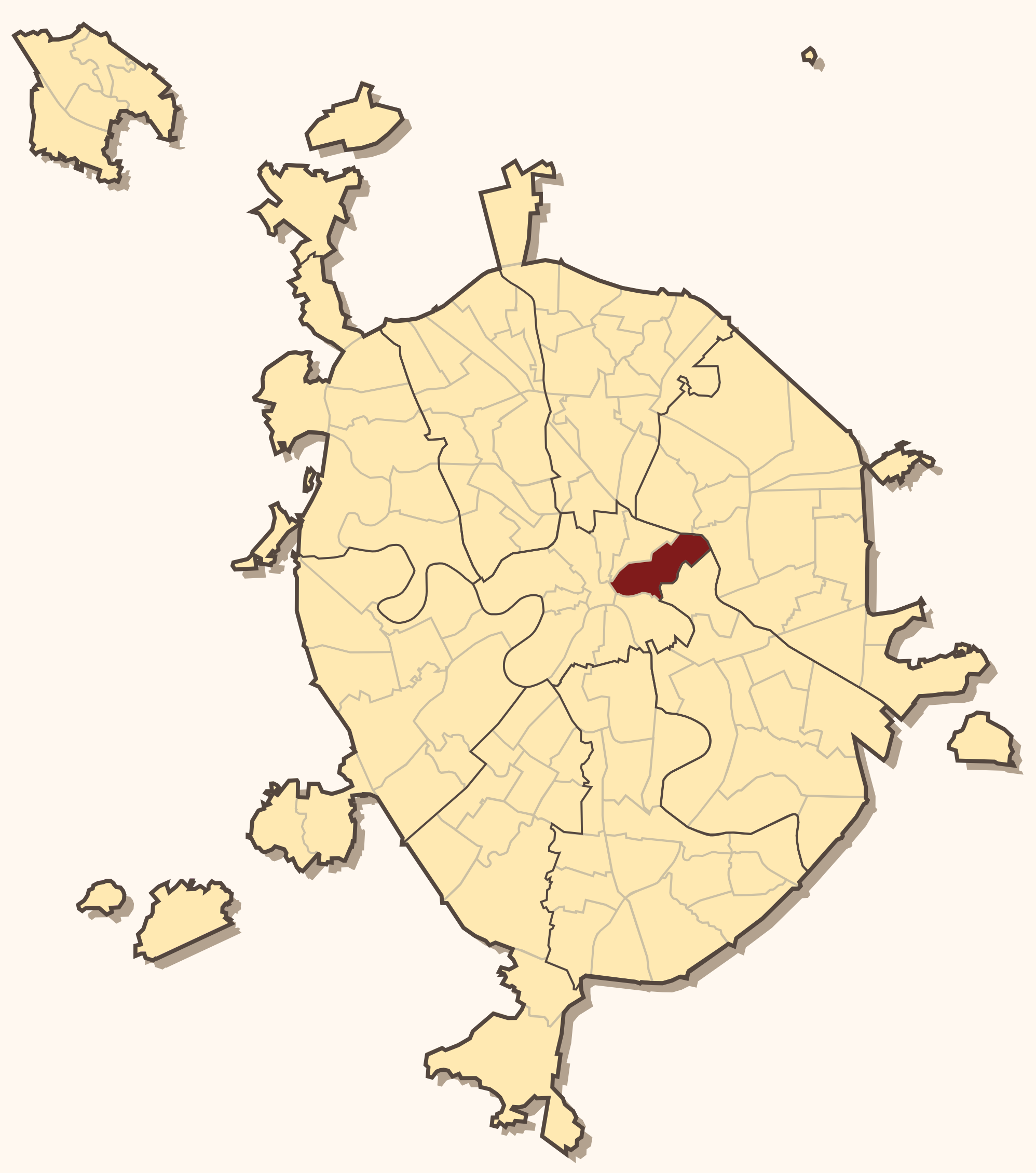 Moscow districts map